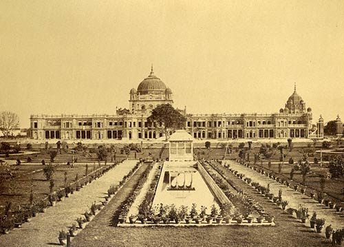 Qaiser Bagh Palace Complex, the residence of King Wajid Ali Shah the last king of Awadh (Oudh)